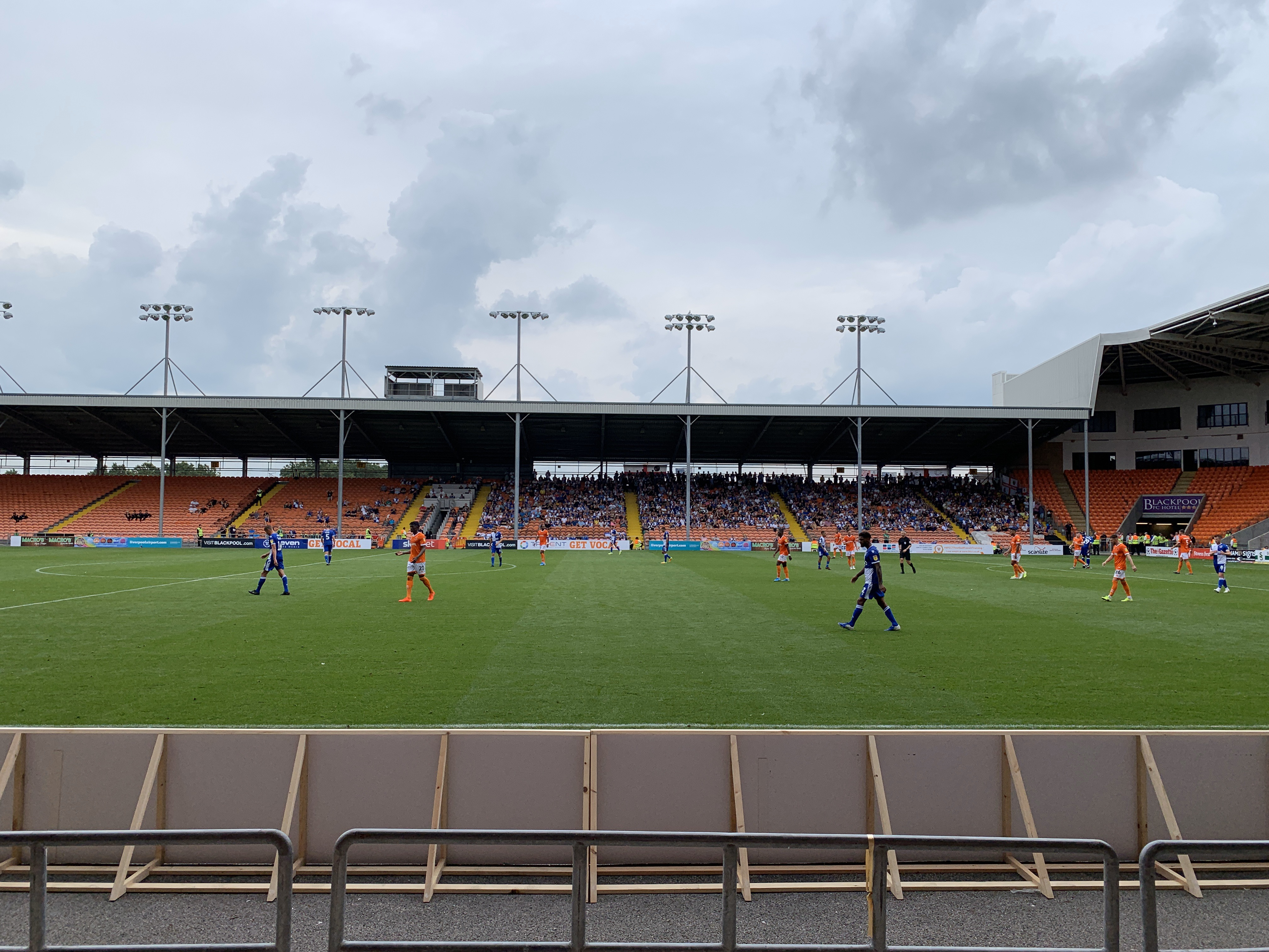 The east stand at Bloomfield Road.